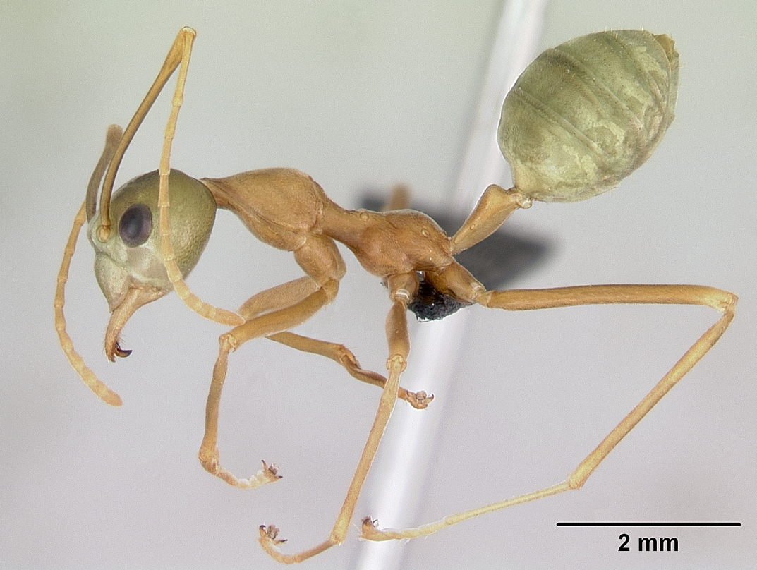 Profile view of ant Oecophylla smaragdina specimen casent0070232.